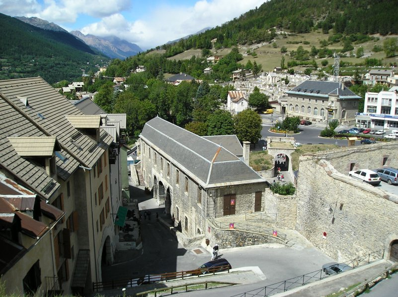 french town of Briançon